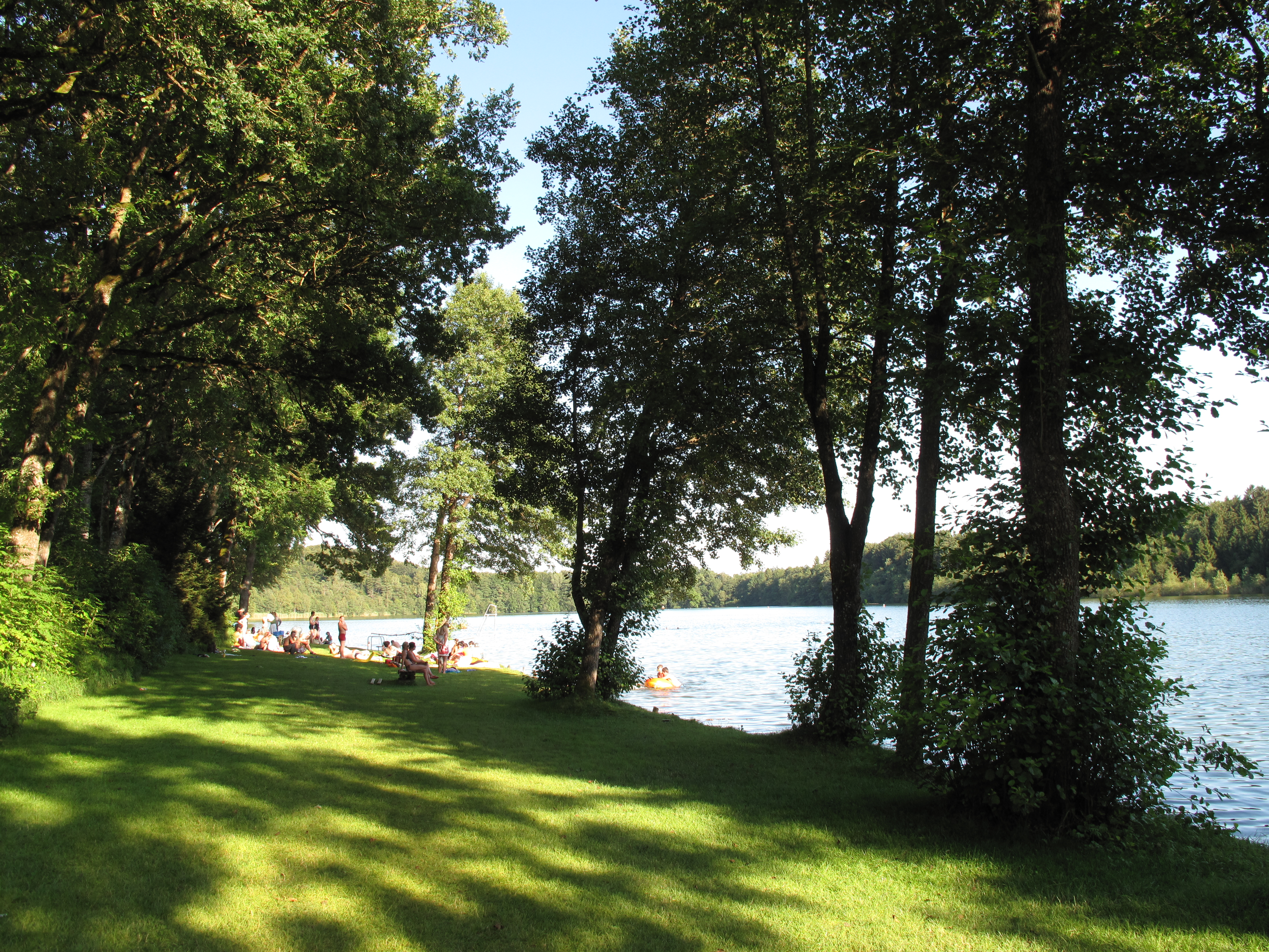 Steinsee on the area of the rual commune Moosach (rural district Ebersberg, Upper Bavaria).